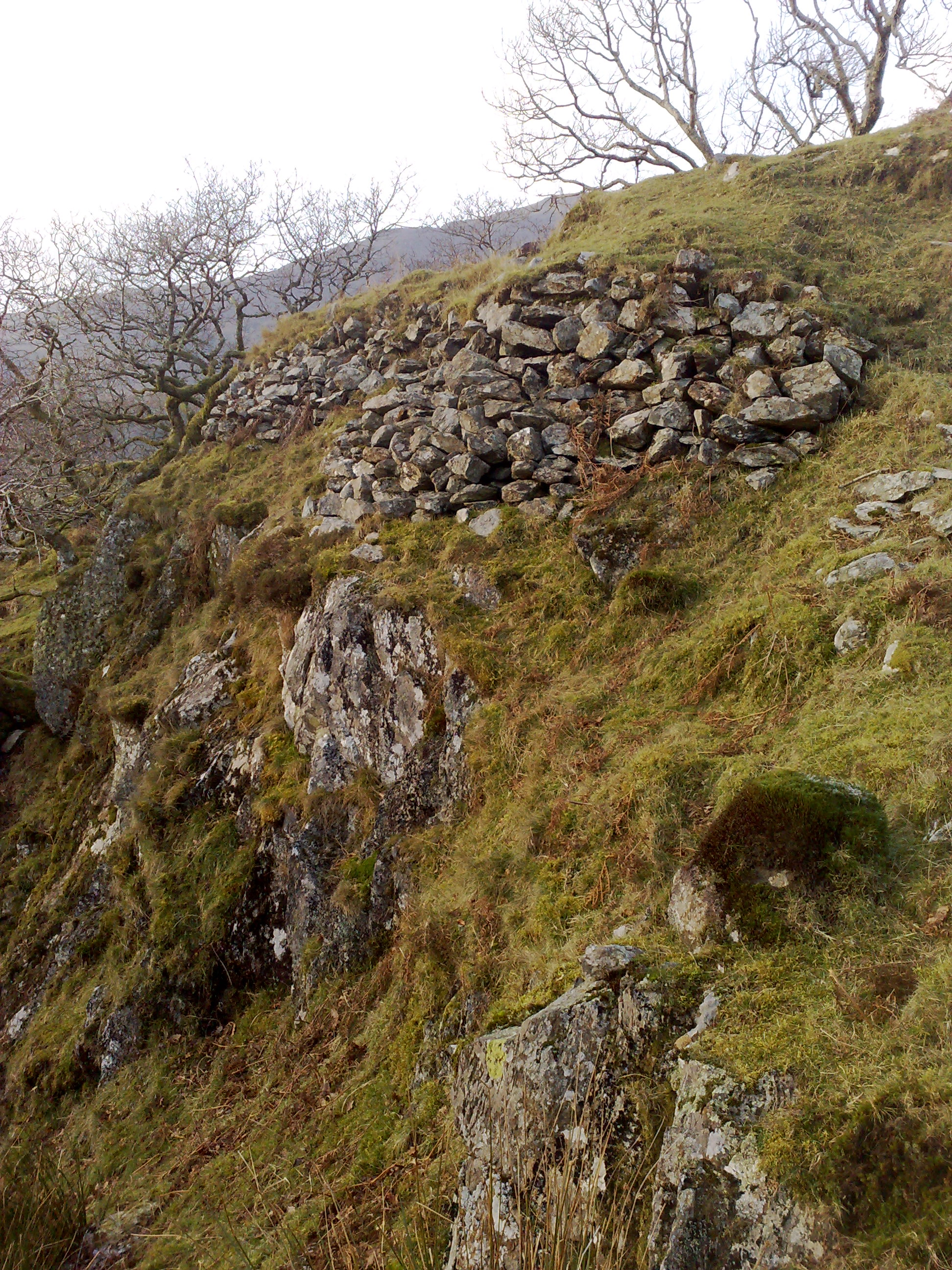 The platform above the "pool" where archaeologists speculate the prophecy may have been revealed